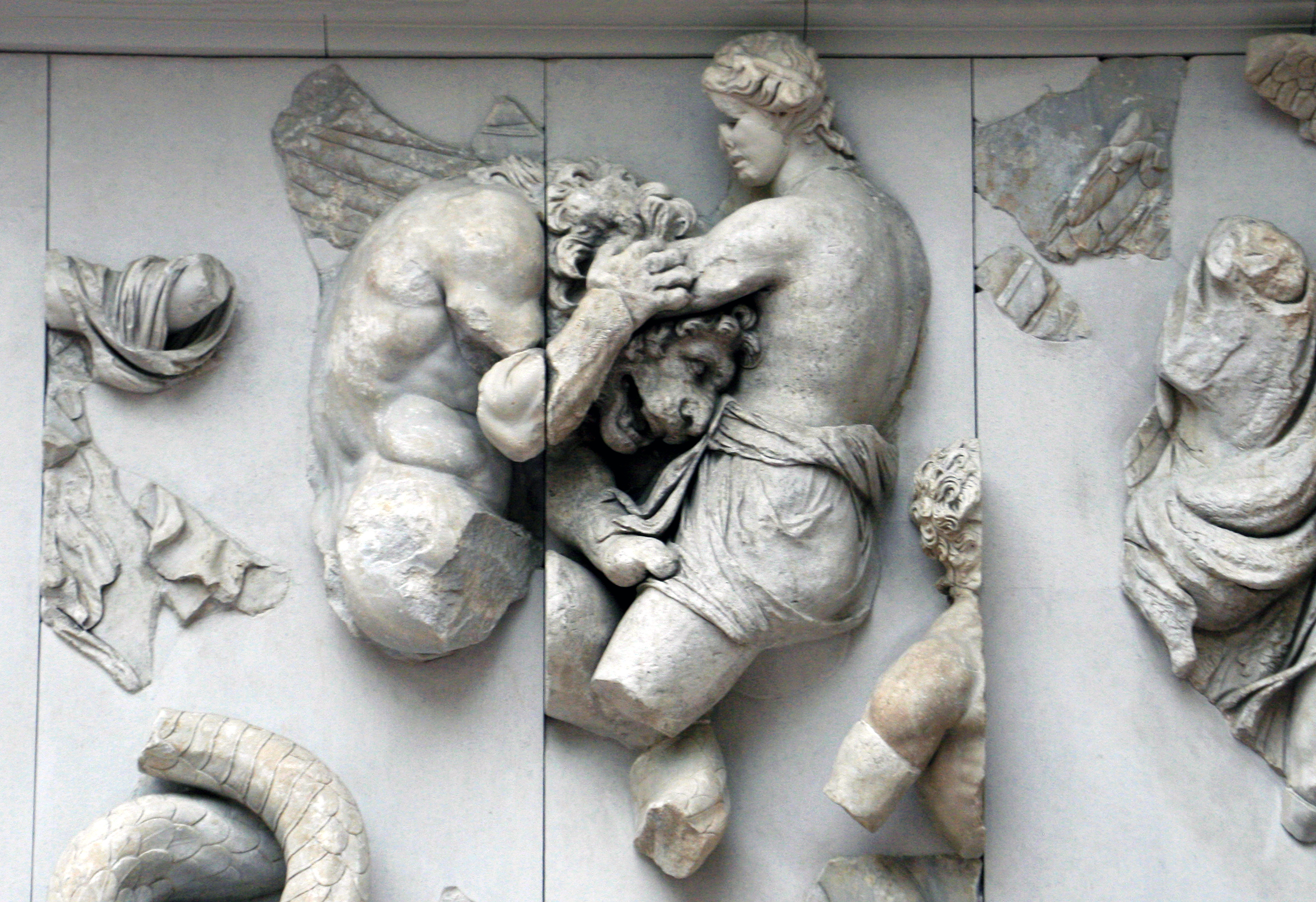 Pergamon Museum (Berlin)